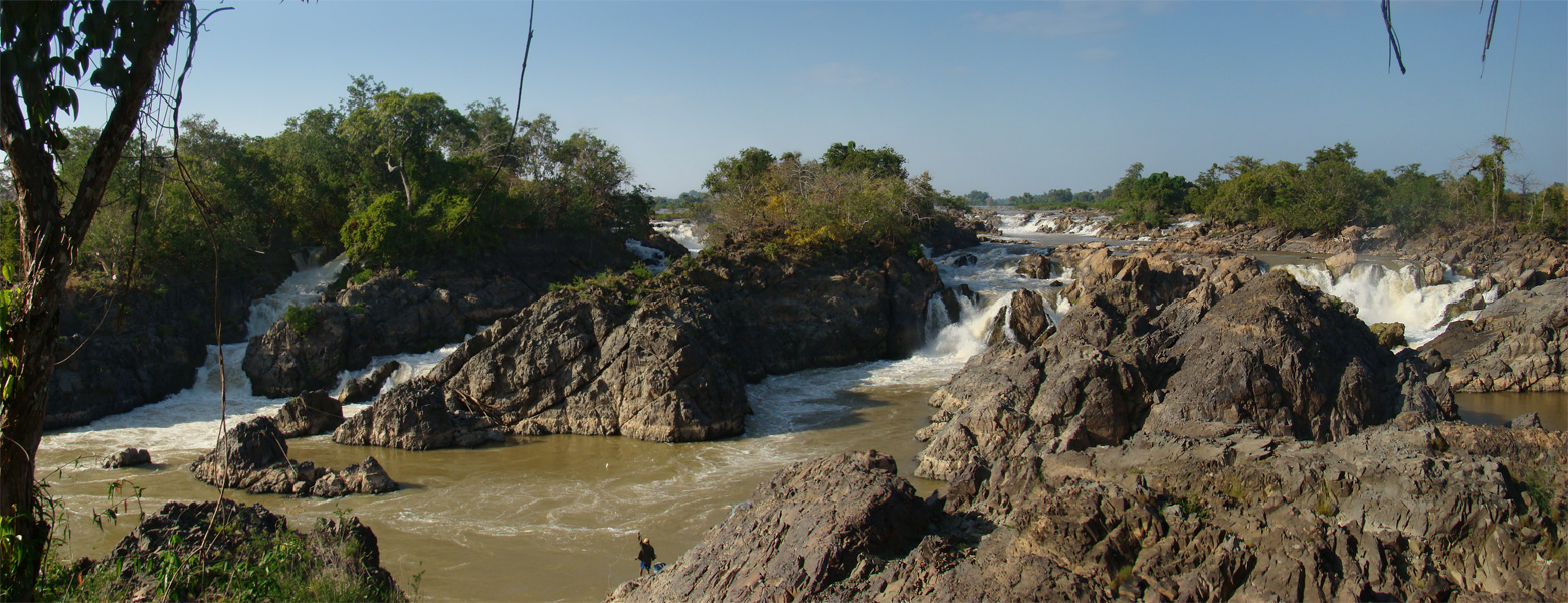 Tad Somphamit also called Li Phi Waterfalls, Si Phan Don, Champasak Province, Laos.